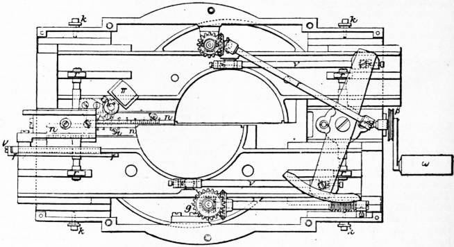 EB1911 - Heliometer - Fig. 10